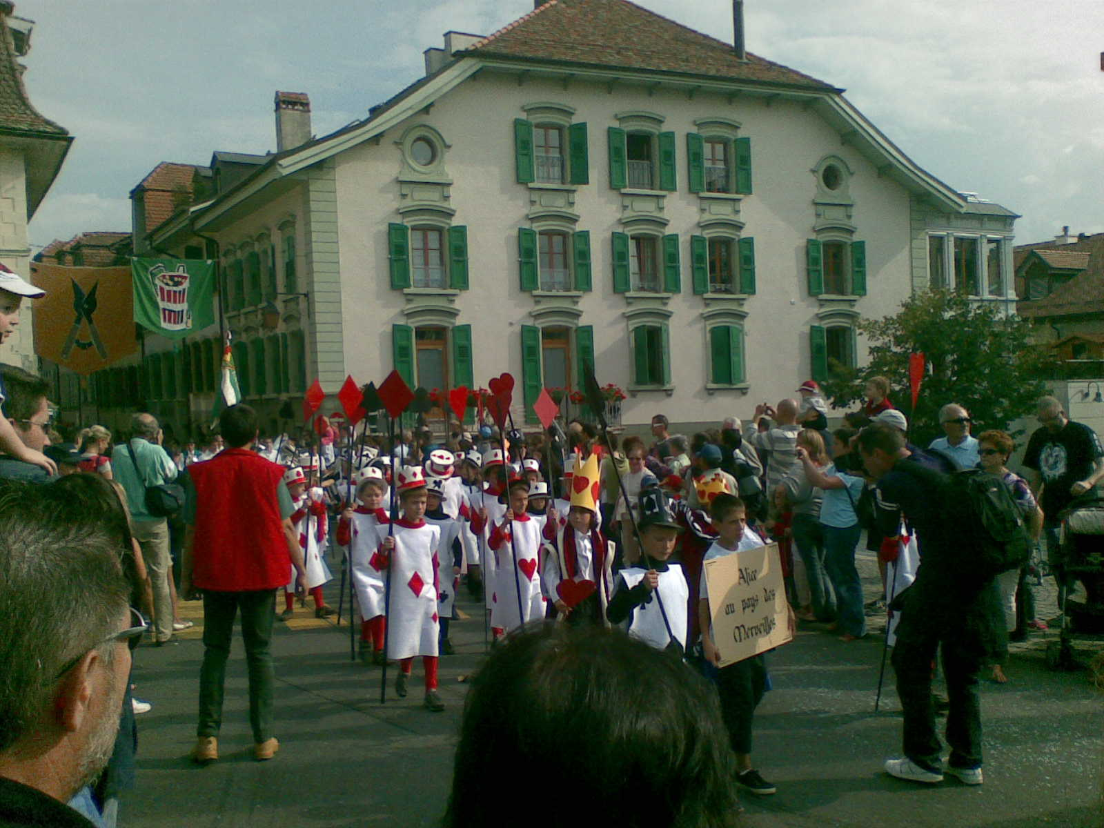 Grape harvest festival, Lutry, Vaud, Switzerland